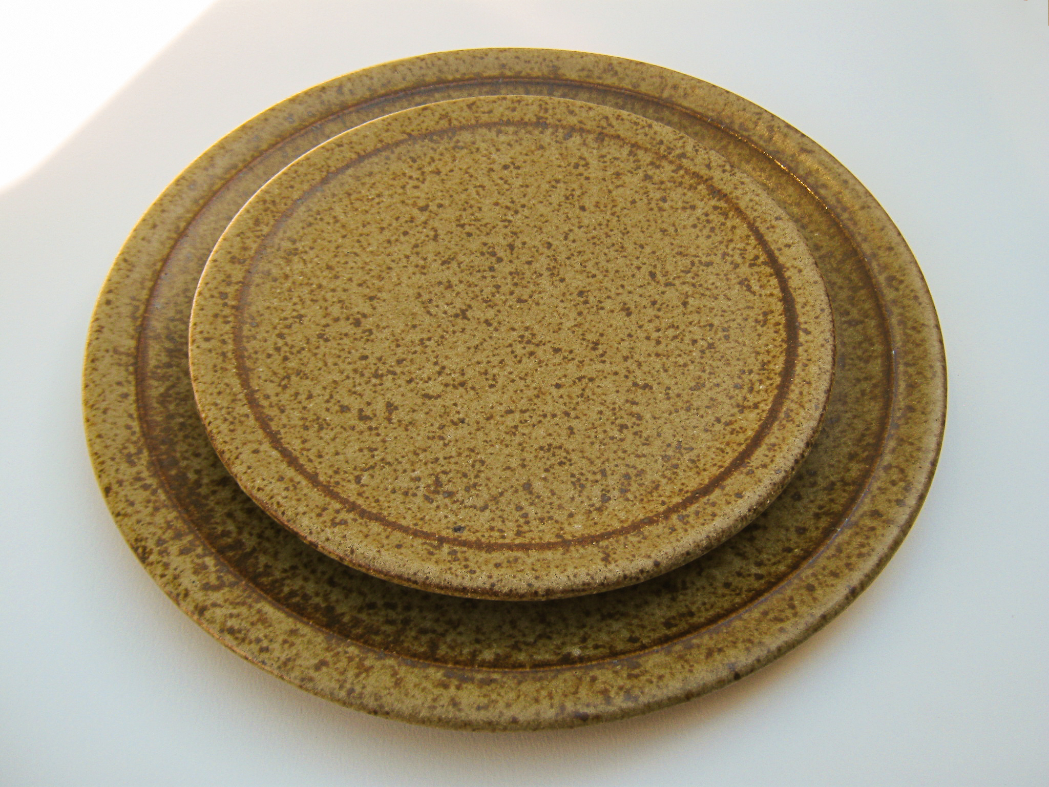 Dinner and side plates by Ian Sprague 1960s; photographed in a private collection at Elwood Victoria